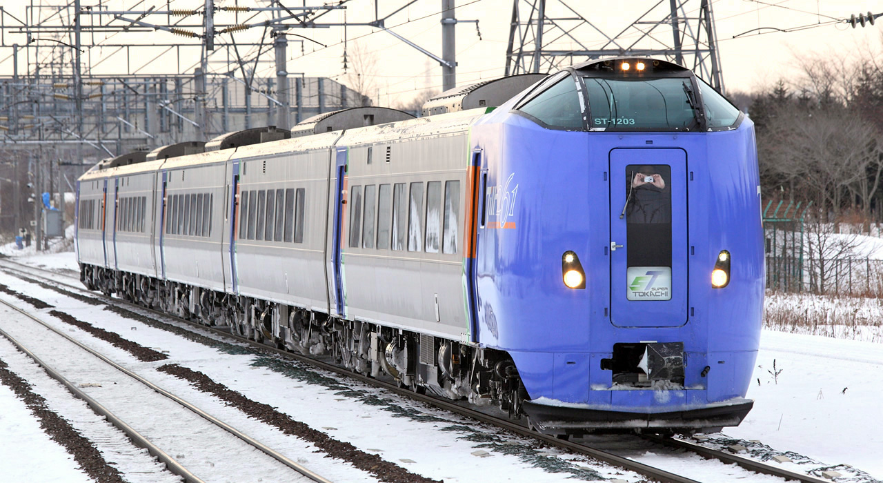 JR Hokkaido 261-1000 series DMU, Super Tokachi 2 on the Chitose Line (32D, Osatsu Stn. - Sapporo-beer-teien Stn. )